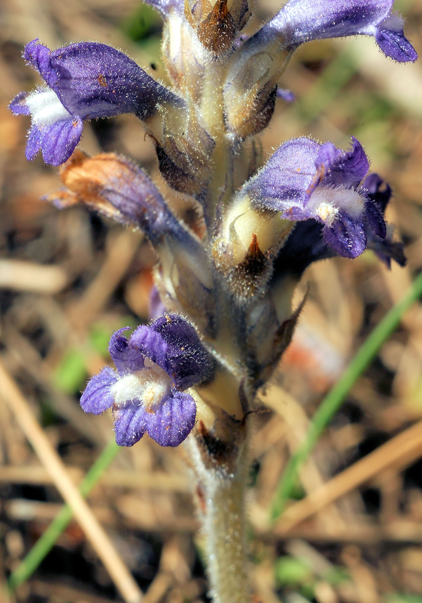 Orobanche mutelii